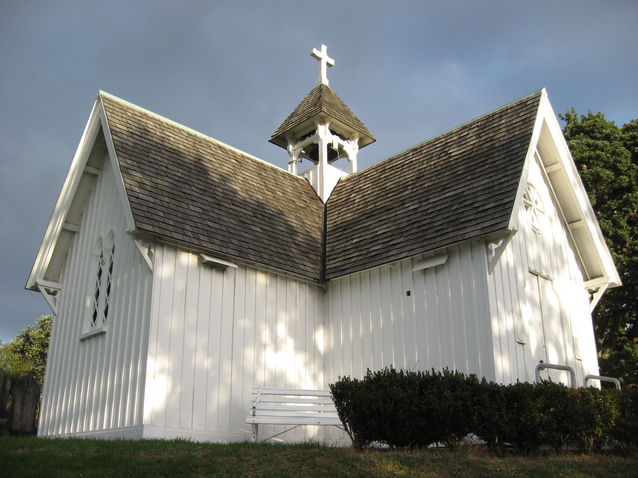 St Stephen’s Chapel, Auckland. New Zealand Historic Places Trust Register number: 22.